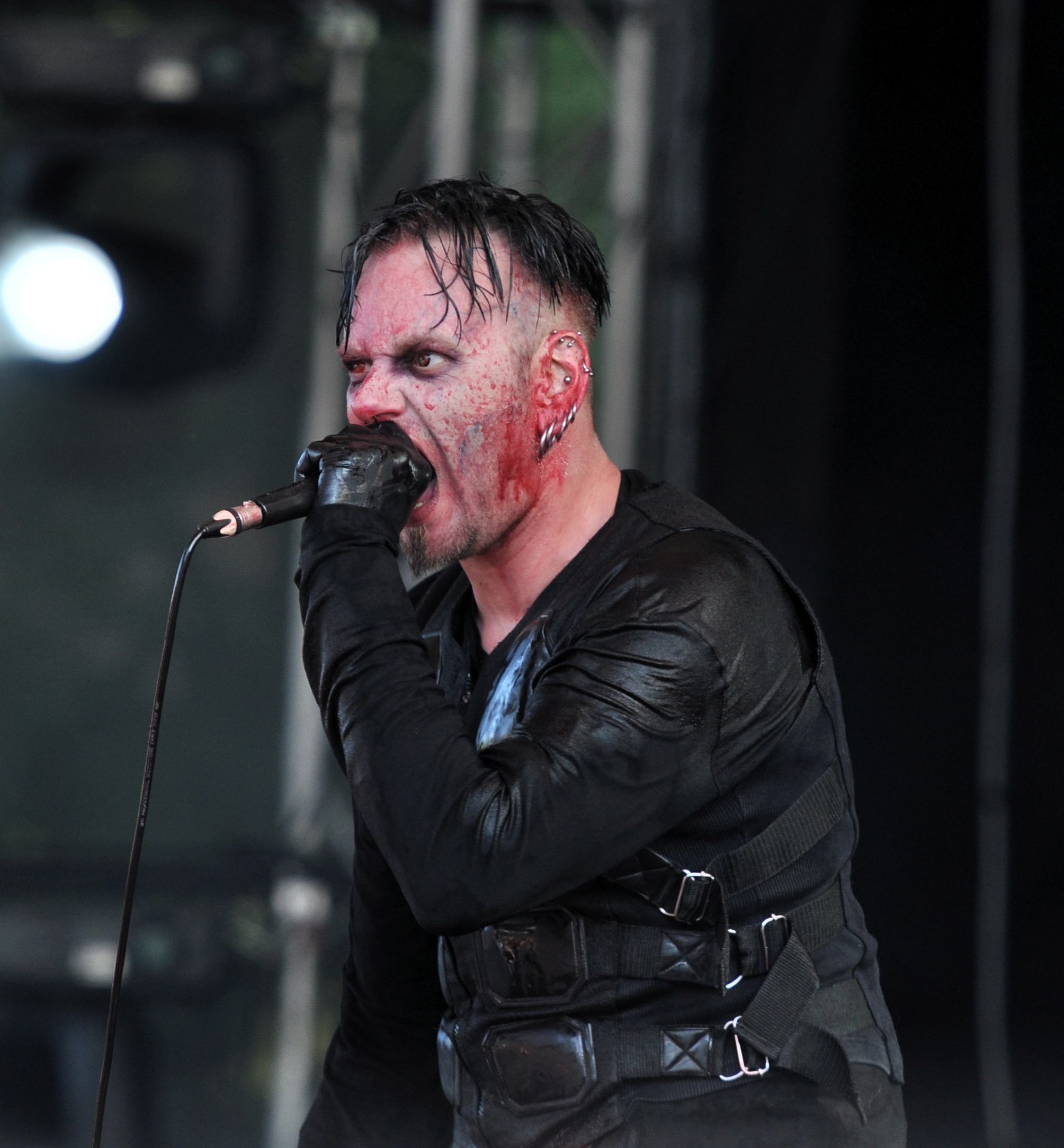 Chris L. of Agonoize at Amphi Festival 2013, Cologne, Germany